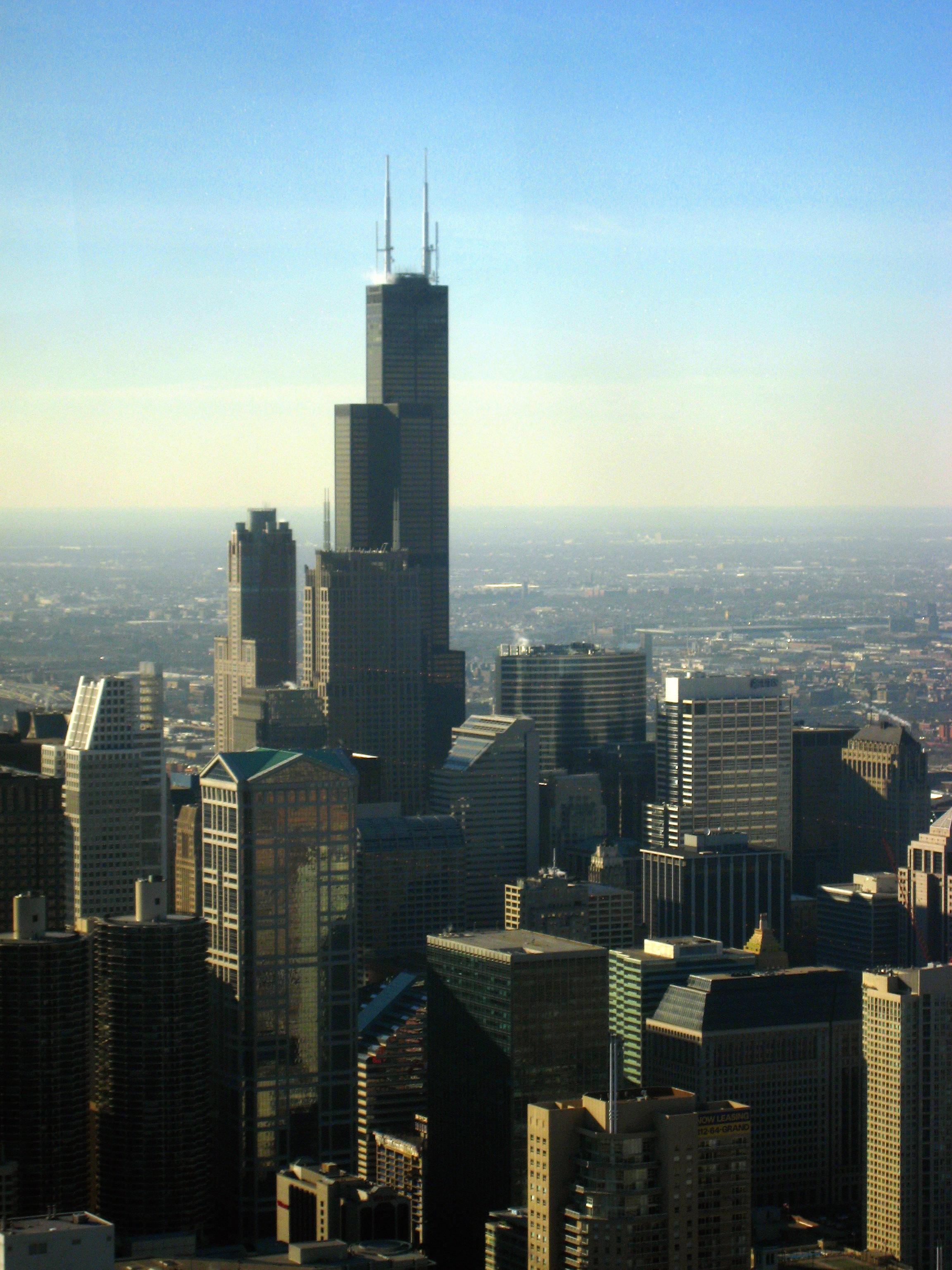 View of Sears Tower Willis Tower from John Hancock Center